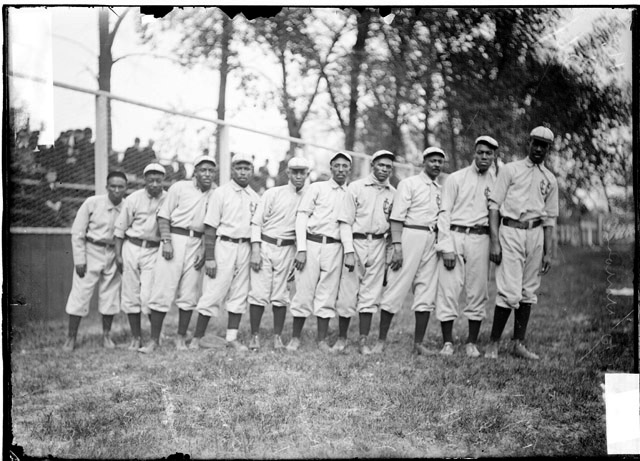 Chicago Union Giants Baseball Team.